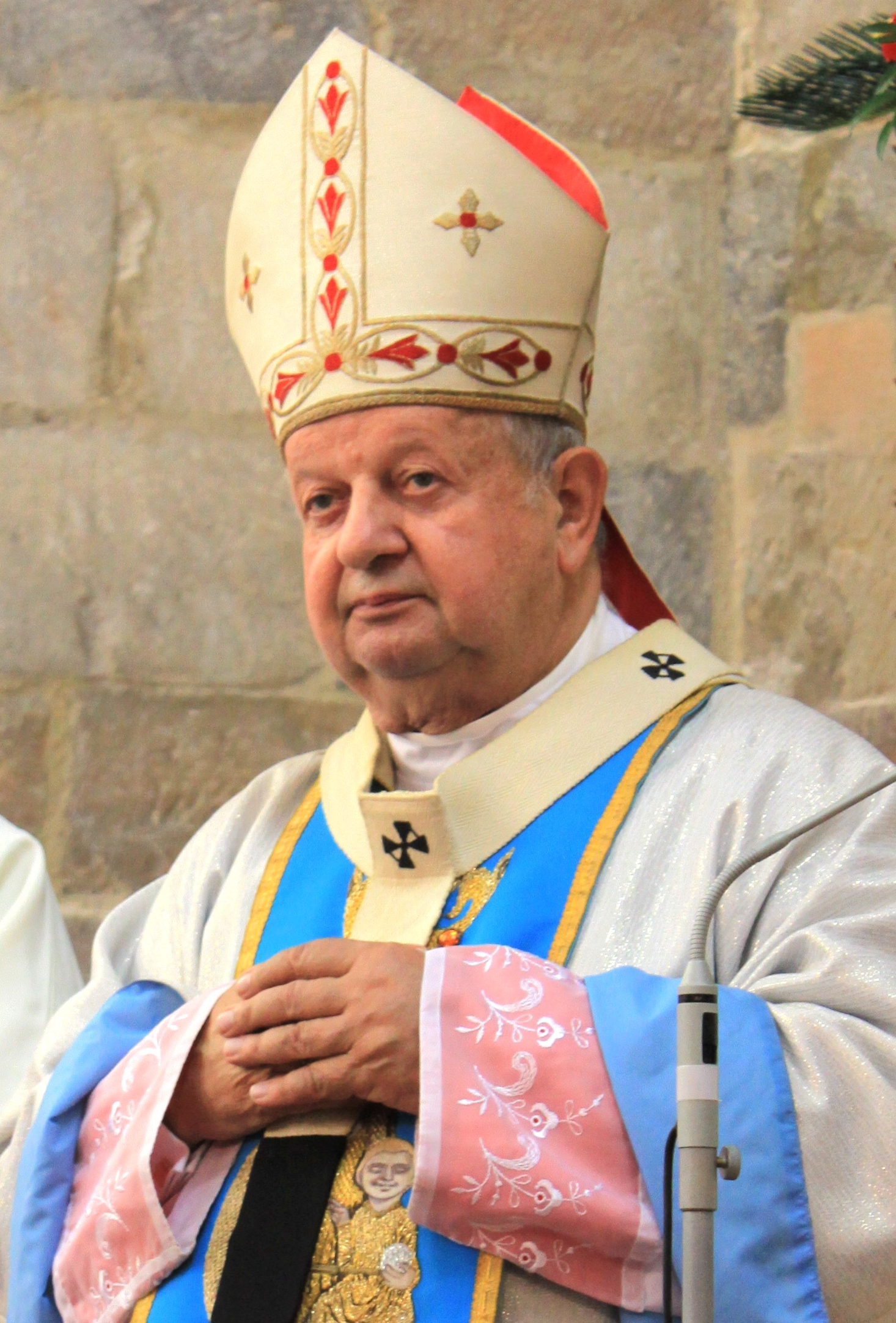 His Eminence Stanisław Cardinal Dziwisz in Wiślica, Minor Basilica, 7 September 2013 Stanislaw Dziwisz - Polish Roman Catholic bishop, doctor of theology, the personal secretary of Pope John Paul II in the years 1978-2005, Archbishop of Krakow since 2005, cardinal-priest since 2006.